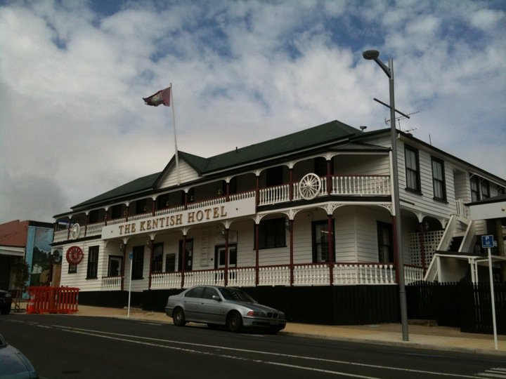 Kentish Hotel in Waiuku New Zealand